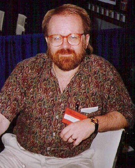 Comic book artist John Byrne at the 1992 San Diego Comic Book Expo.